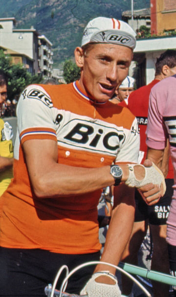 Cyclists Felice Gimondi and Jacques Anquetil shaking their hands at the start of the 22nd stage of the Giro d'Italia Tirano-Milan. Tirano, 11th June 1967